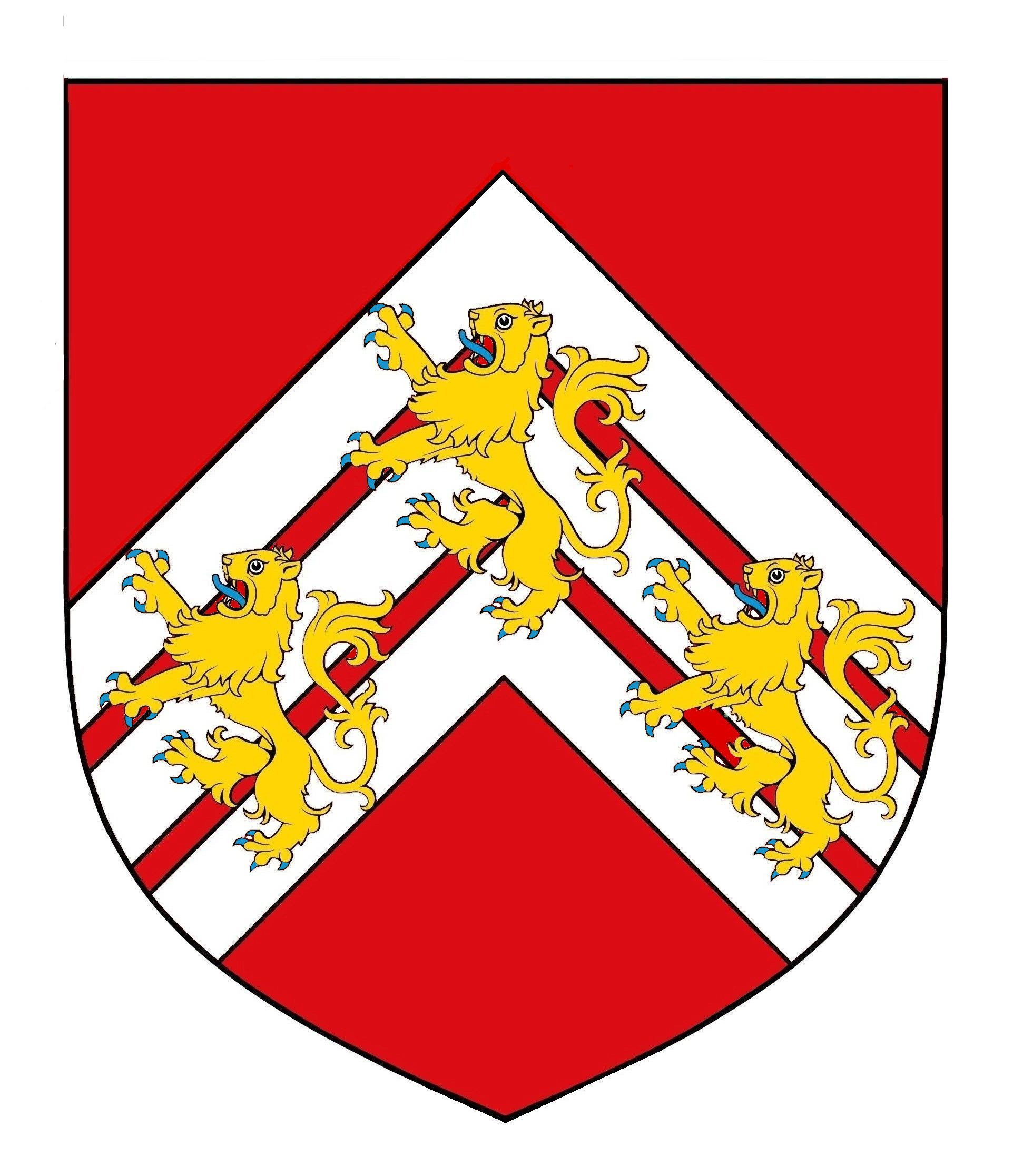 Sir Richard Cromwell alias Williams (c.1510-1544). Arms: Gules, three chevronels Argent, over all three lions rampant Or, armed and langued Azure. Crest: A demi-lion rampant Or, charged with three chevronels Gules, holding between the paws a plummet Azure. Reference: Metcalfe, W. C. (1885). A Book of Knights Banneret, Knights of the Bath, and Knights Bachelor. p. 69.